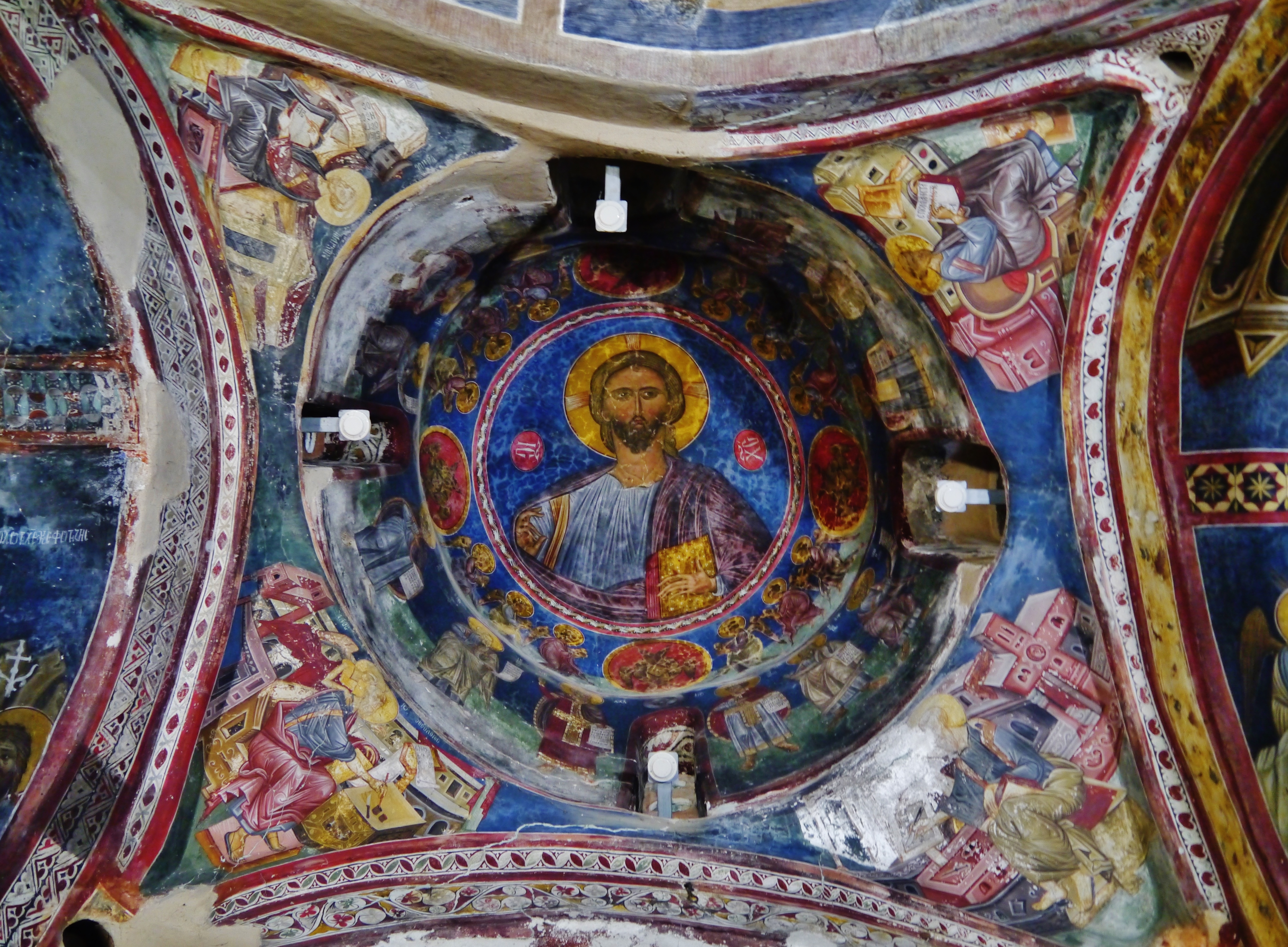 Dome of the Church of St. Nicholas of the Roof, Kakopetria, Cyprus